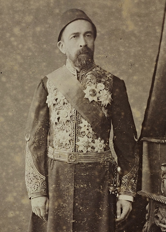 Ahmed Arifi Pasha